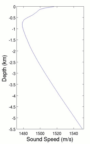 Chart speed of sound with depth. Underwater sound channel.